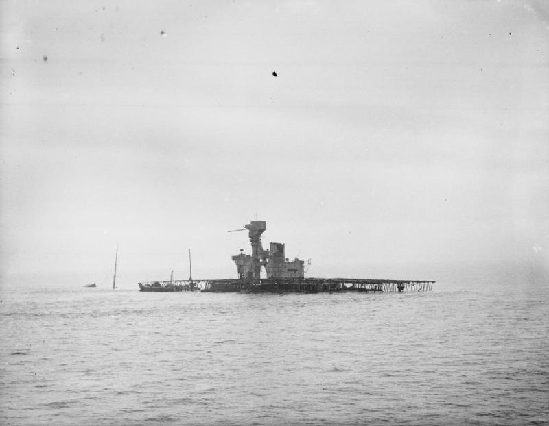 On Board the Destroyer HMS Whaddon Escorting a Convoy. 3 To 10 October 1941, Escorting a Convoy From Rosyth To Sheerness and Return. View of Fleet Tender C, off Lincolnshire Coast. Fleet Tender C was the SS Zealandic (1911), a Fleet tender used as a decoy. It was intended to look like HMS Hermes (95), but ran aground on the wreck of the SS Ahamo on 1941-06-03, and was then torpedoed by E-boats. This photo was taken approximately three or four months later, after the ship had been abandoned.